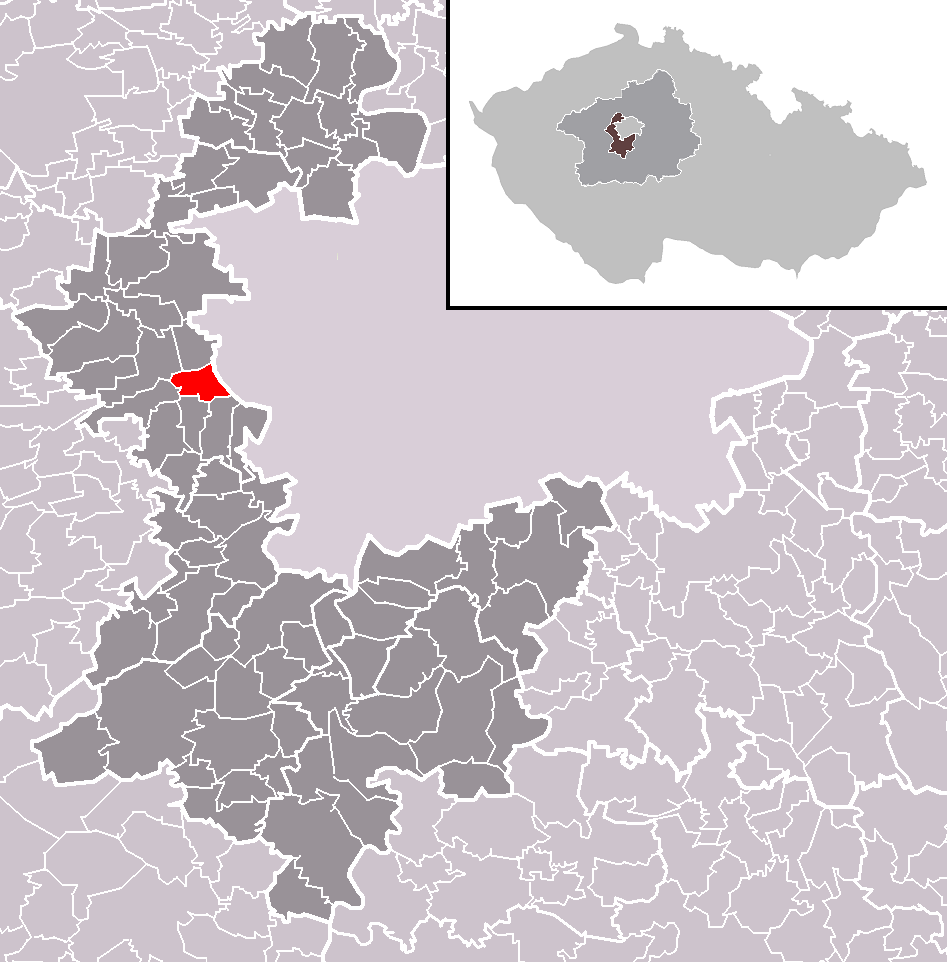 Location of Jinočany municipality within Prague-West District and administrative area of Černošice as a Municipality with Extended Competence.